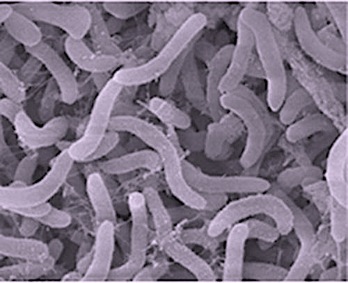 Microscopic photo of the bacterium Pelagibacter ubique, the most common bacterium in the ocean and possibly the most common in the world